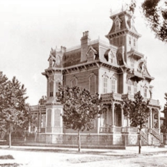 Historic photograph of Savannah Country Day School